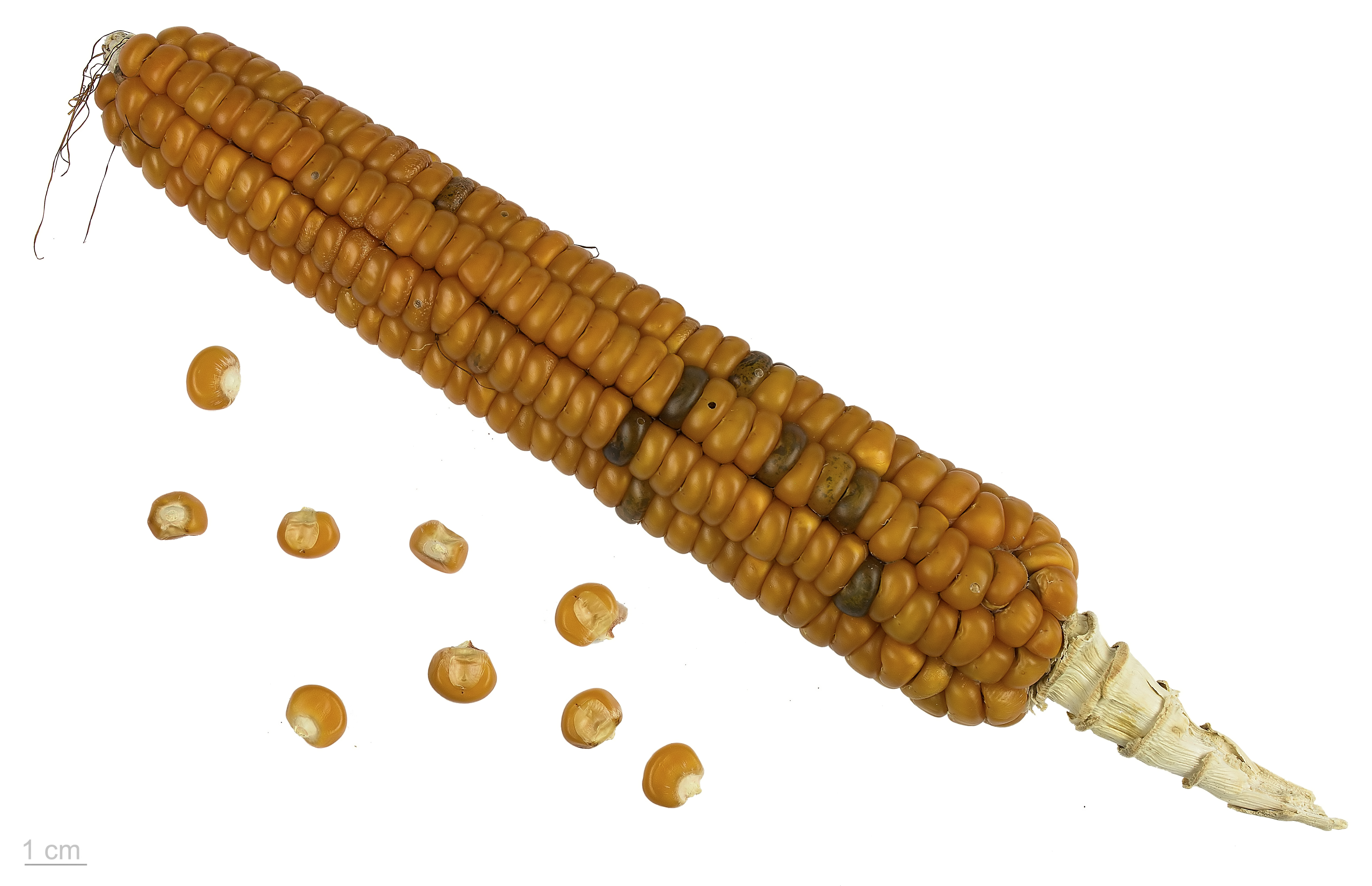 Zea mays 'Ottofile giallo Tortonese', , seeds